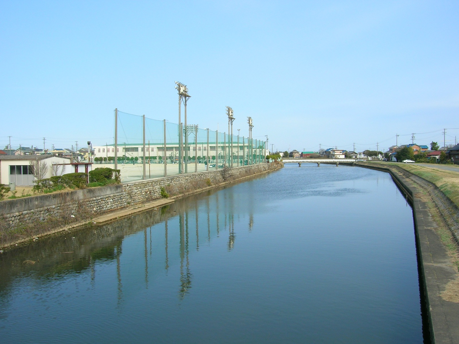 Ikada River. Loc: Yatomi city, Aichi Prefecture, Japan. 筏川 撮影場所 愛知県弥富市・野方付近